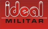 Ideal Militar logo